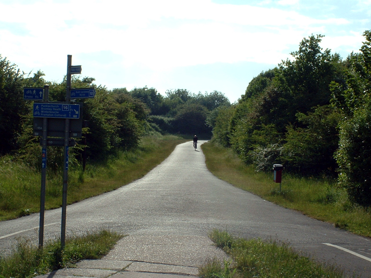 The Sustrans cycleway between Bristol and Bath, England, at the former Mangotsfield railway station.